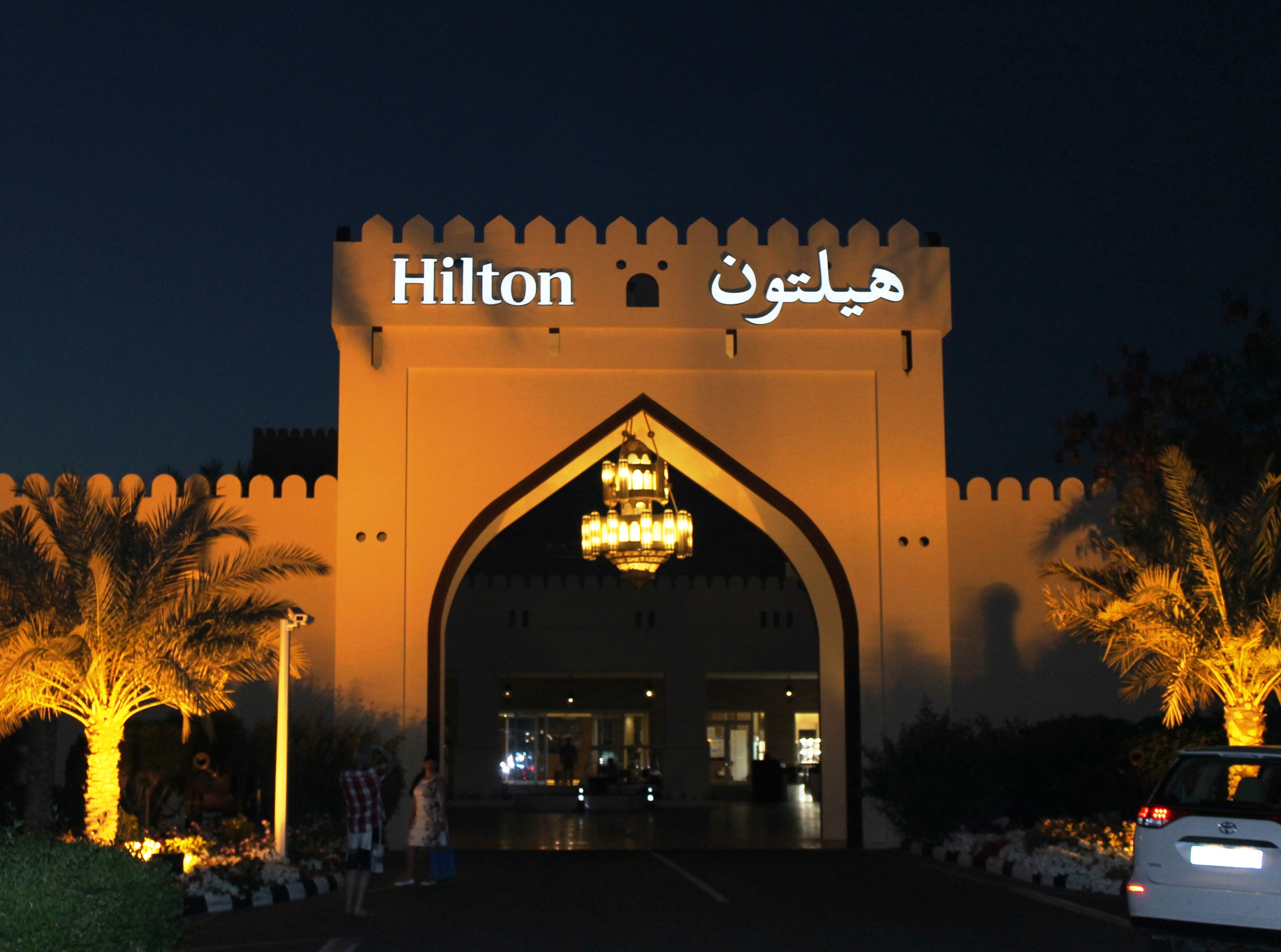 Al Hamra Fort Hotel & Beach Resort